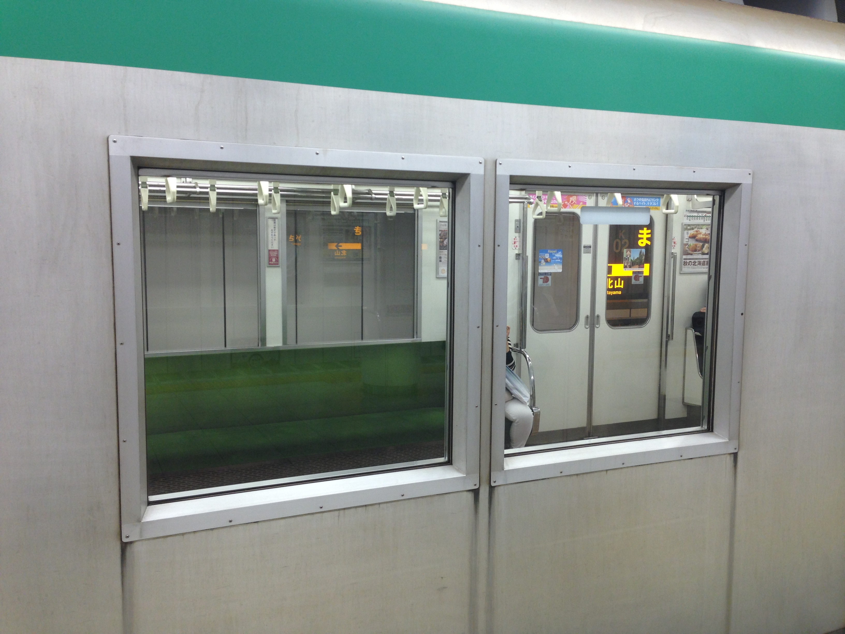 Windows on a Kyoto Subway 10 series batch 1 train (1308)